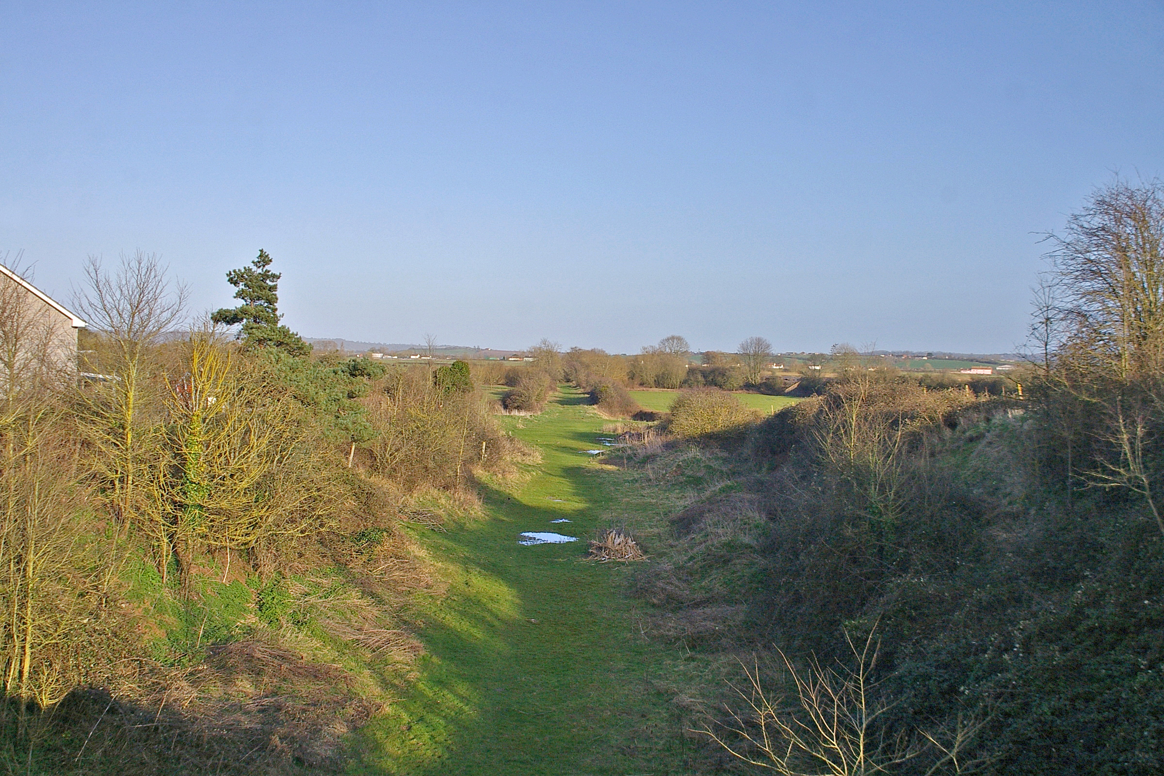 Old route of the Taunton to Yeovil line near East Lyng in Somerset. This is actually the site of Lyng Halt railway station.